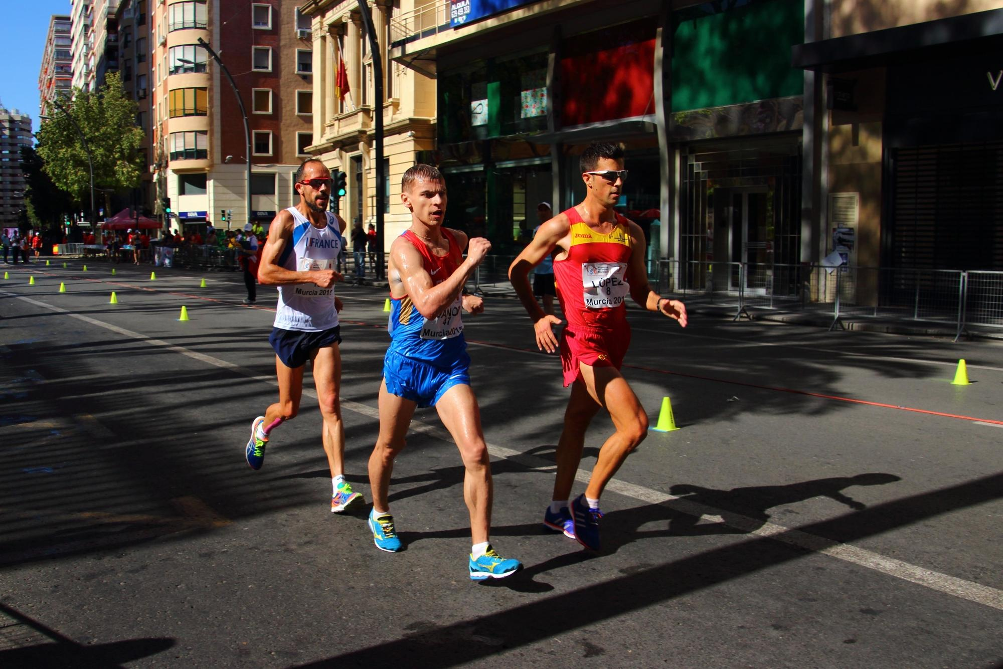 8-Miguel Ángel López (ESP), 47-Aleksandr Ivanov (RUS) y 18-Yohann Diniz (FRA) in the 11th European Cup Race Walking Murcia ESP 17 May 2015